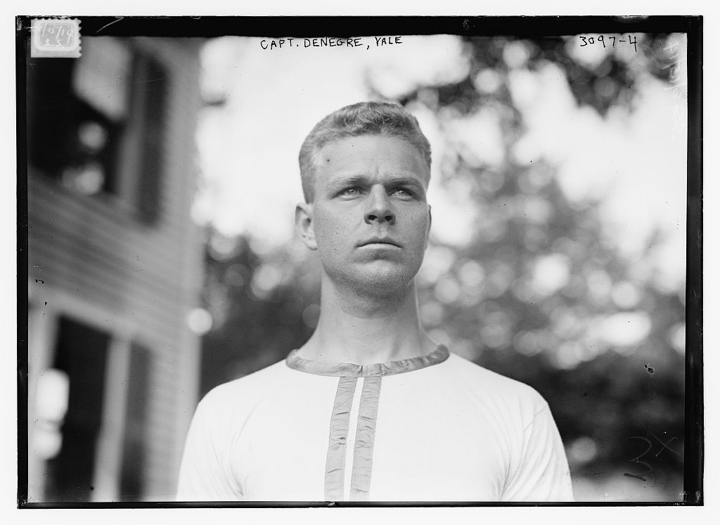 Capt. Thomas Bayne Denegre at Yale University in June 15, 1914 Bain News Service,, publisher. Capt. Denegre, Yale [between ca. 1910 and ca. 1915] 1 negative : glass ; 5 x 7 in. or smaller. Notes: Title from unverified data provided by the Bain News Service on the negatives or caption cards. Forms part of: George Grantham Bain Collection (Library of Congress). Format: Glass negatives. Repository: Library of Congress, Prints and Photographs Division, Washington, D.C. 20540 USA, General information about the Bain Collection is available at Persistent URL: Call Number: LC-B2- 3097-4